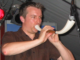 Pibgorn played by Gafin Morgan at the InterCeltic Festival at Lorient, Brittany, August 2008.